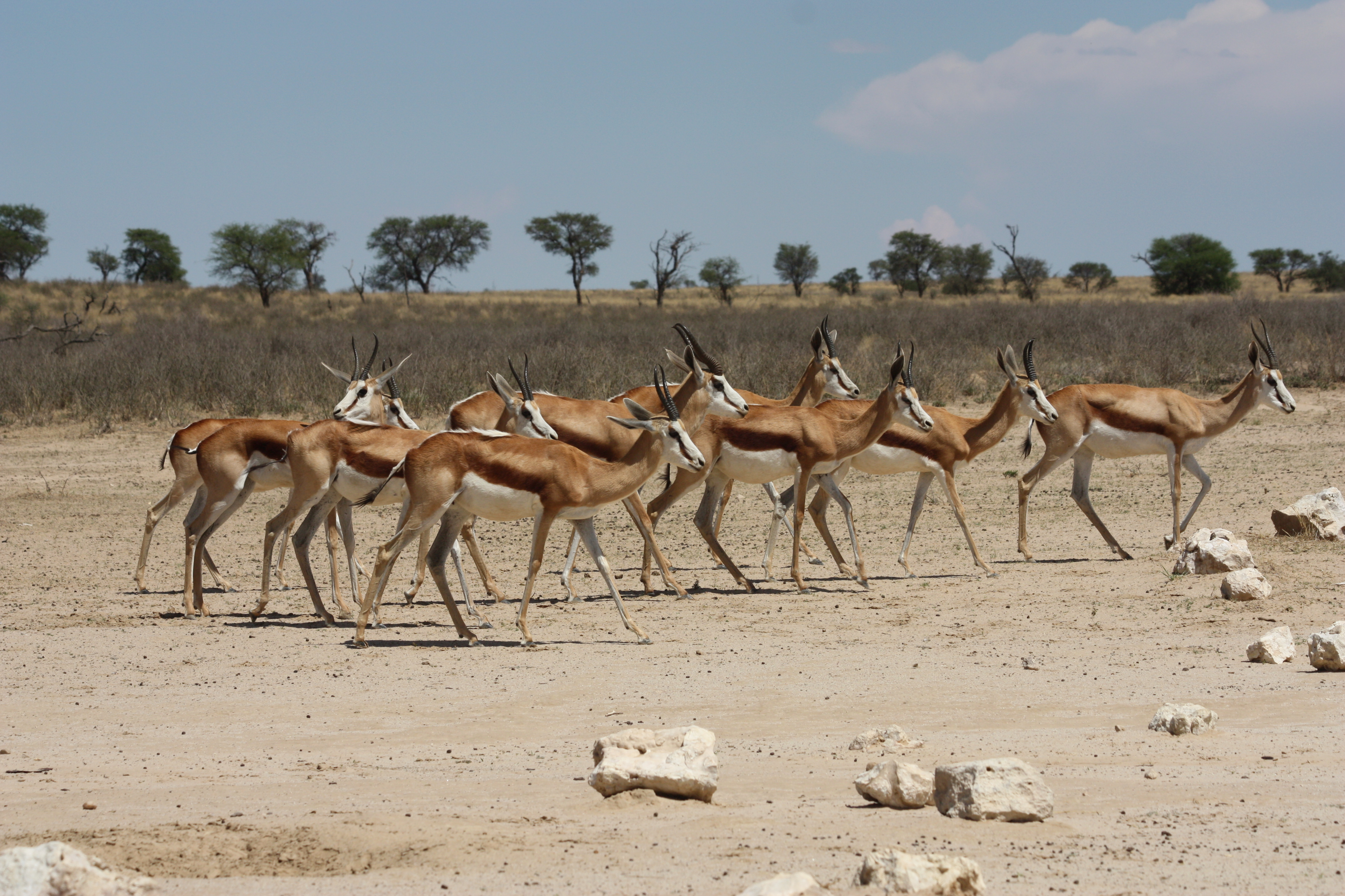 Springbok at Grootkolk Camp in the Kgalagadi Transfrontier Park, Northern Cape, South Africa